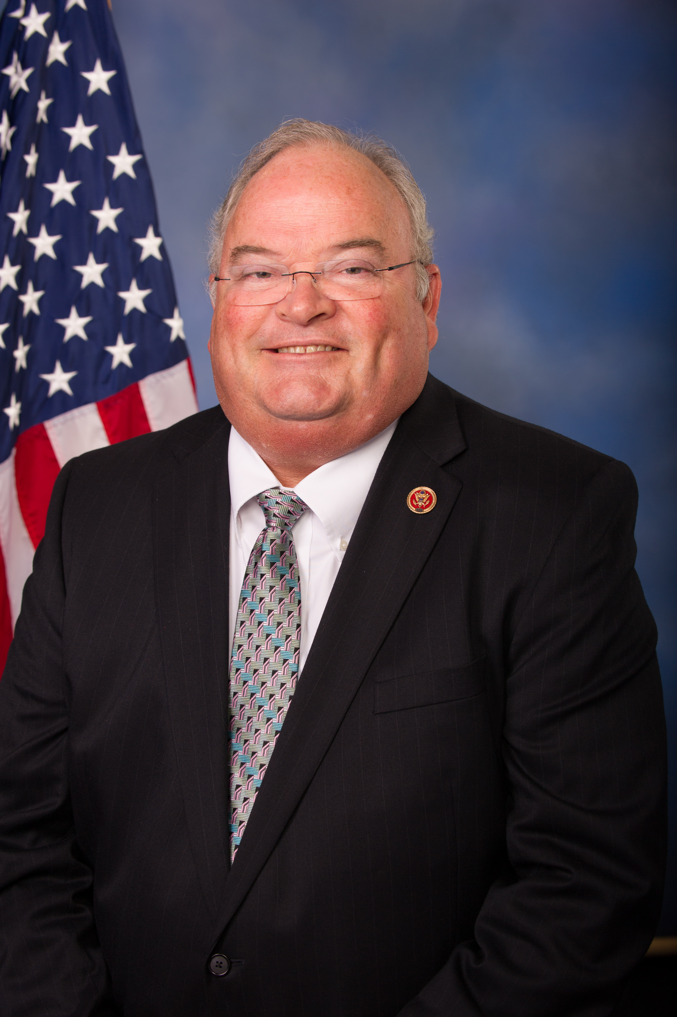 Billy Long official photo